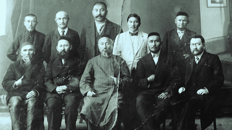 Akhmet Baitursynov, Mirjaqip Dulatuli, (?), Kazhymukan Munaitpasov and other members of the Kazakh intelligentsia, 1918.